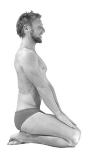 Vajrásana - Yôga position